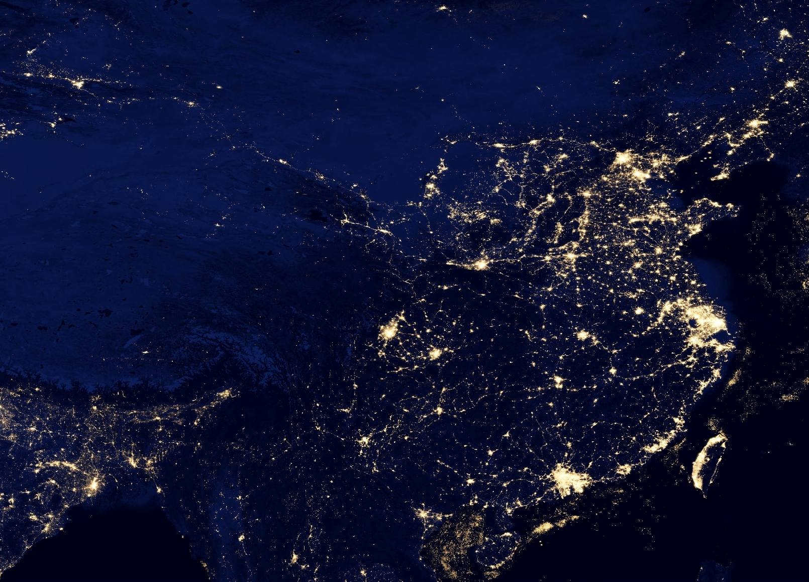 This view of East Asia at night is a composite image assembled from data acquired by the Suomi National Polar-orbiting Partnership (Suomi NPP) satellite over nine days in April 2012 and thirteen days in October 2012.